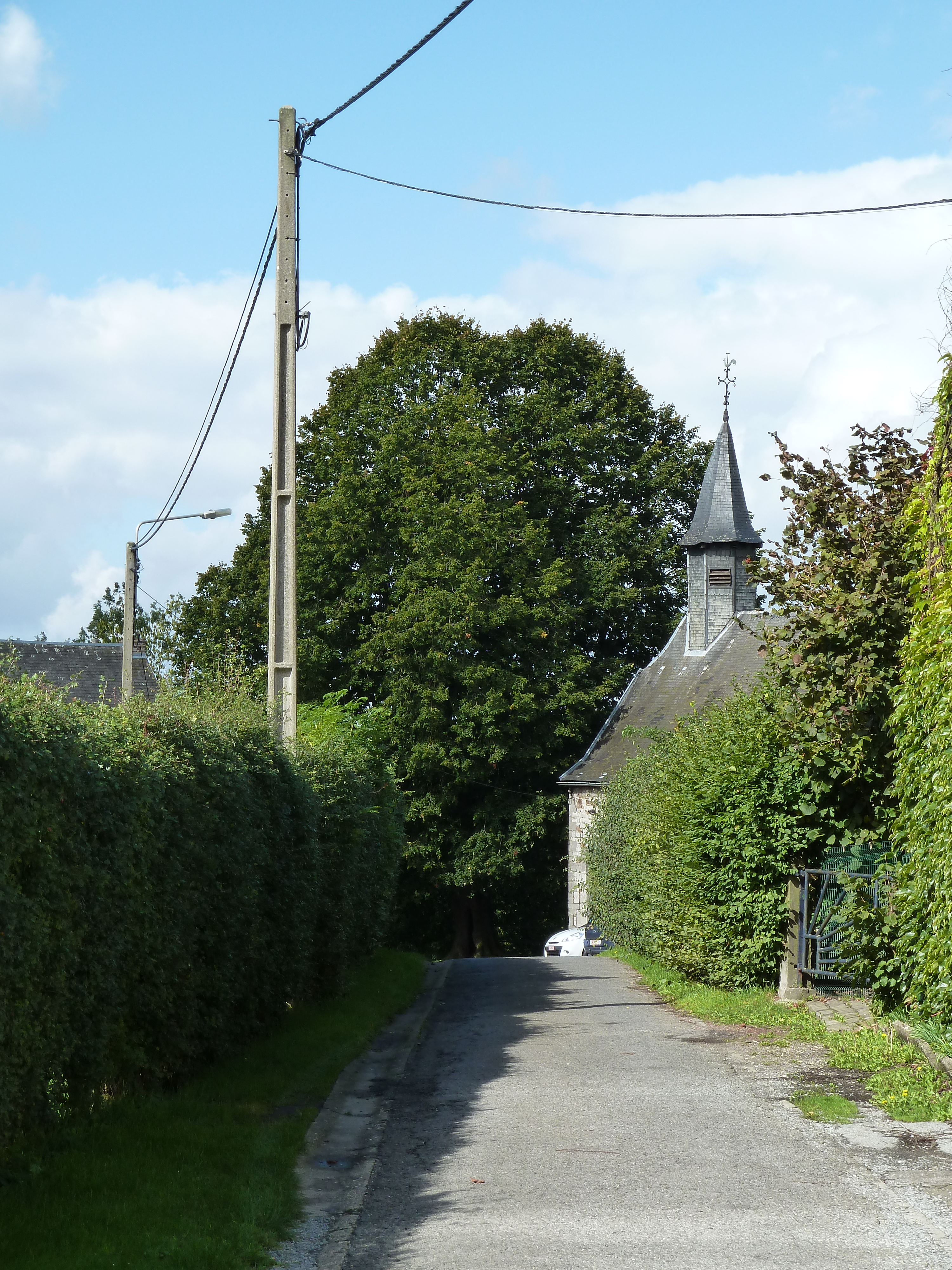 Nailtree of Le Fief next to the church, Olne, Belgium